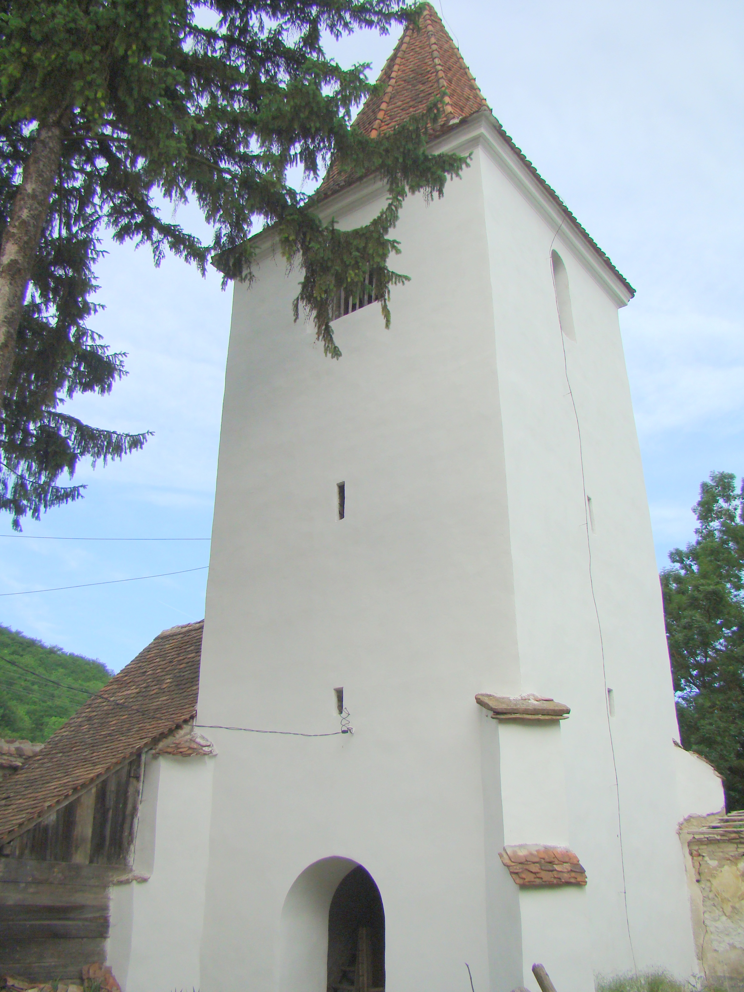 Lutheran church in Seleuș (Zagăr), Mureș county, Romania